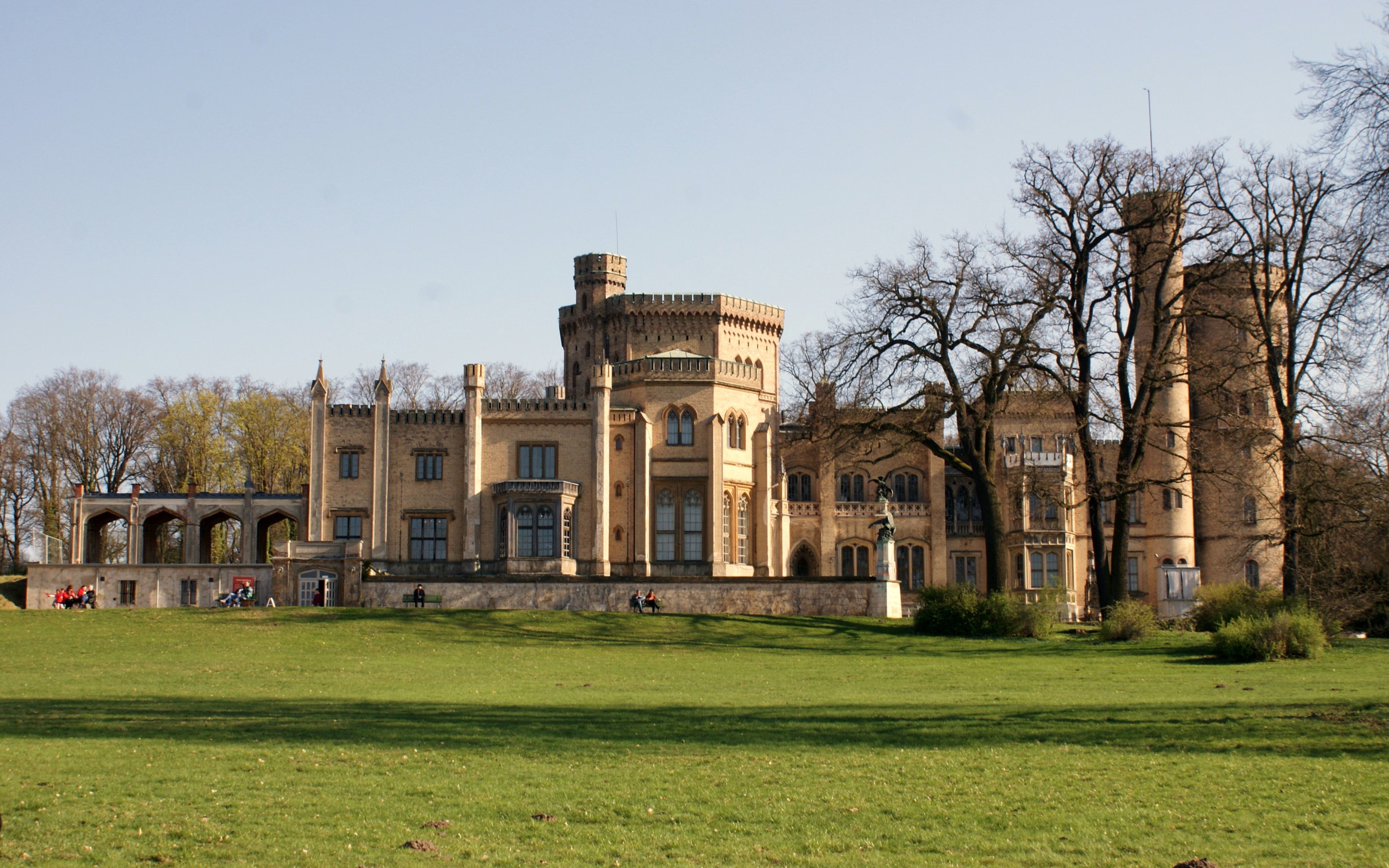 Babelsberg Castle